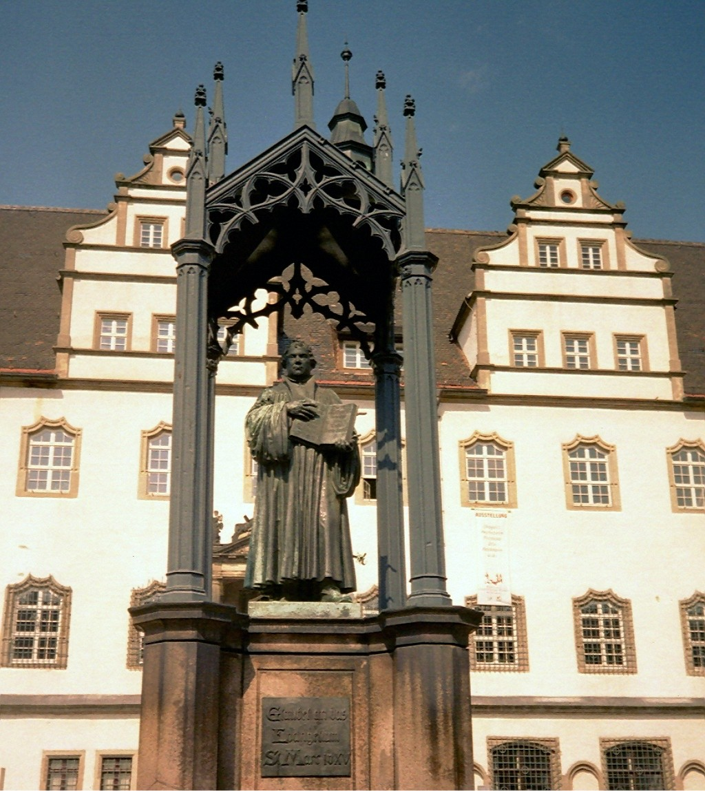 A Statue of Luther in the market square in Wittenberg, Germany.